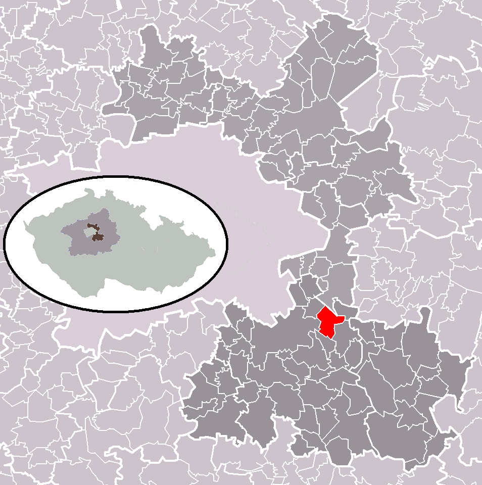 Location of Babice municipality within Prague-East District and administrative area of Říčany as a Municipality with Extended Competence.